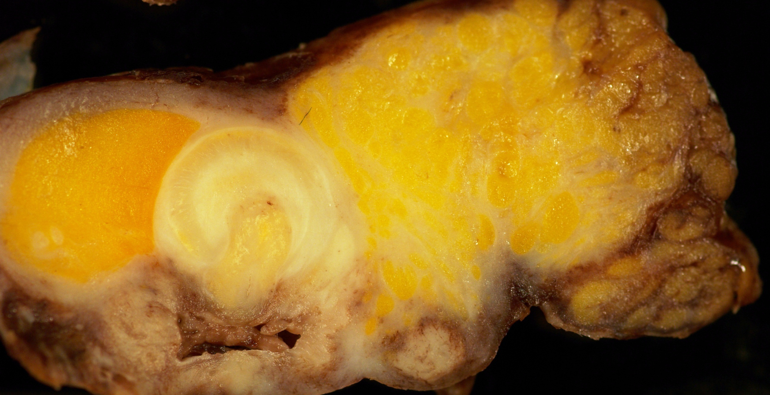 Appendiceal carcinoid (Dr. Robertson)